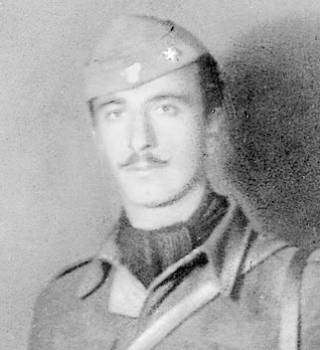 Ioannis Kyriakidis (Lefteris) commander of 1st city battalion of Greek People's Liberation Army, New Smyrna, Athens Greece, October 1944